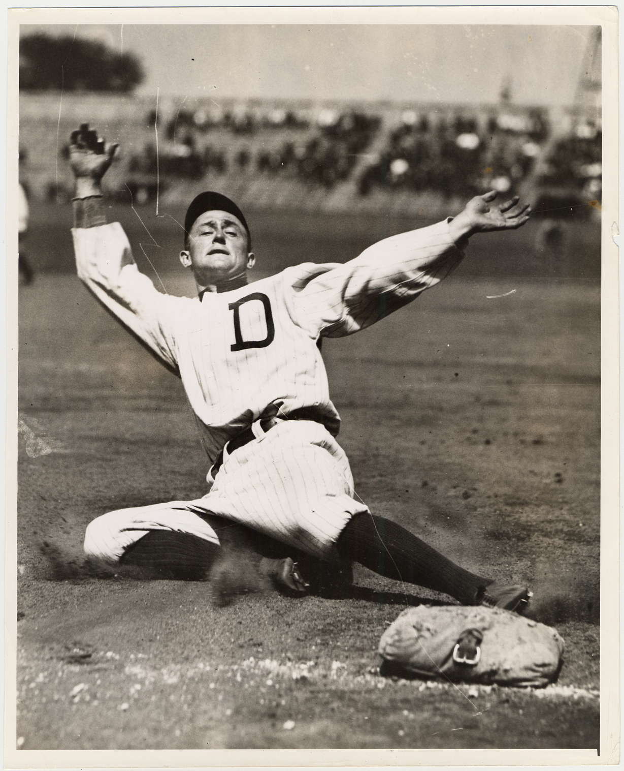 View of Ty Cobb sliding into base